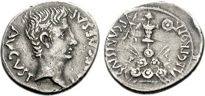 Augustus. 27 BC-AD 14. AR Denarius (3.76 g, 3h). Spanish mint - Emerita. P. Carisius, legate. Struck circa 25-23 BC. Bare head right Trophy of Celtiberian arms. RIC I 4a; RSC 403a.